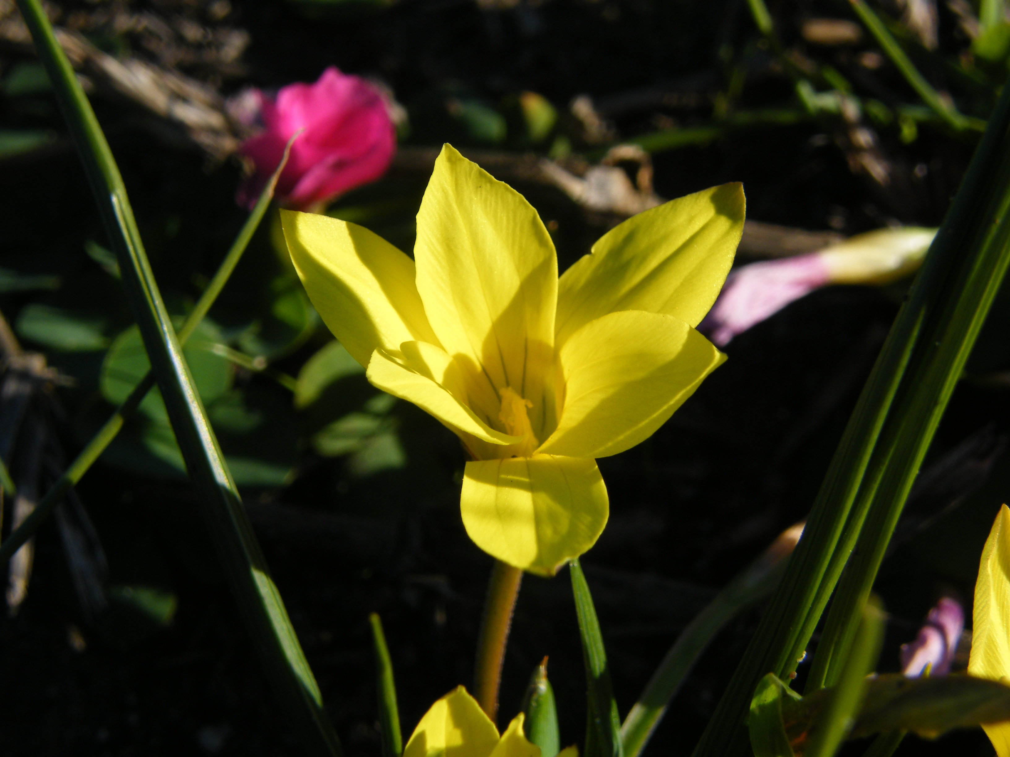 leaf ribbed